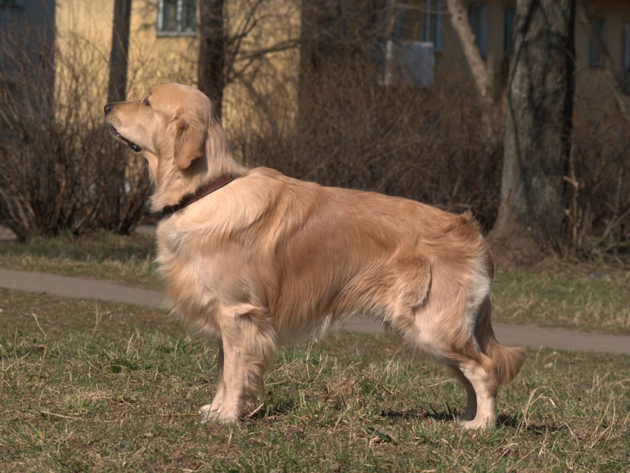 Golden Retriever